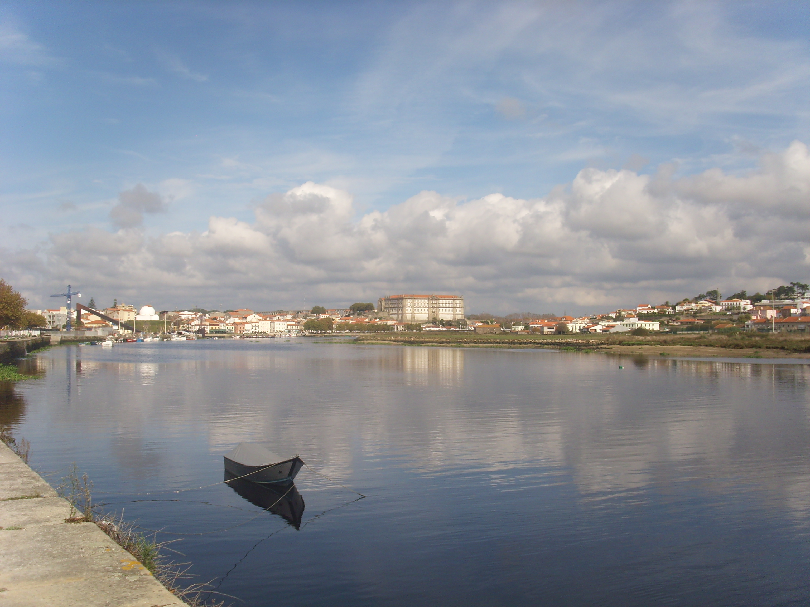 Vila do Conde riverfront